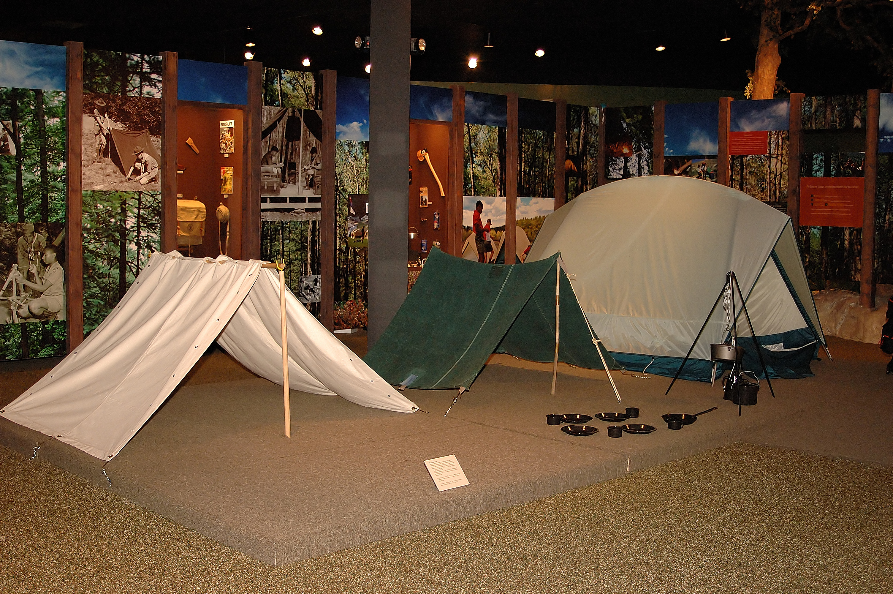 Exhibit at the National Scouting Museum, Irving, Texas.